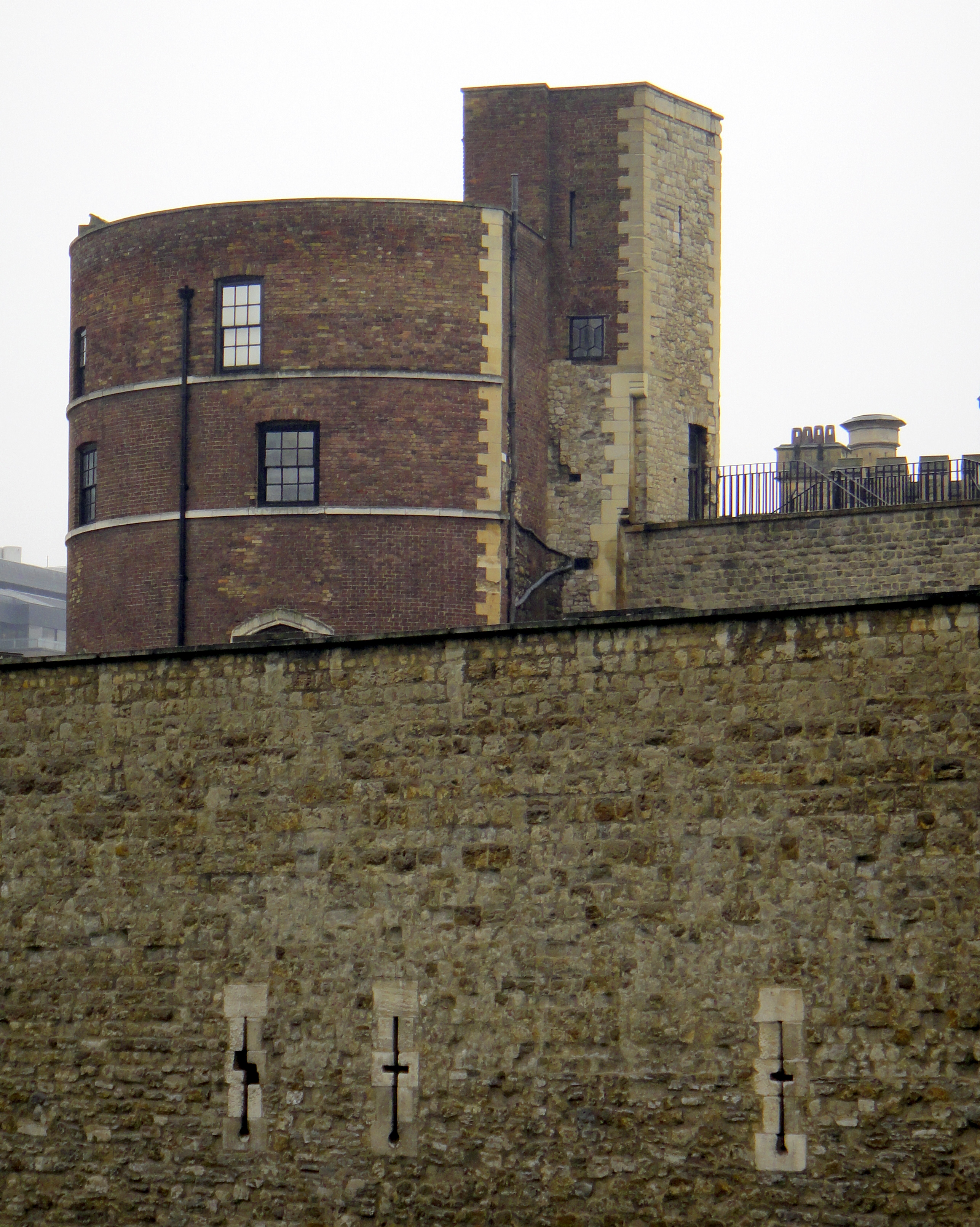 Martin Tower, Tower of London